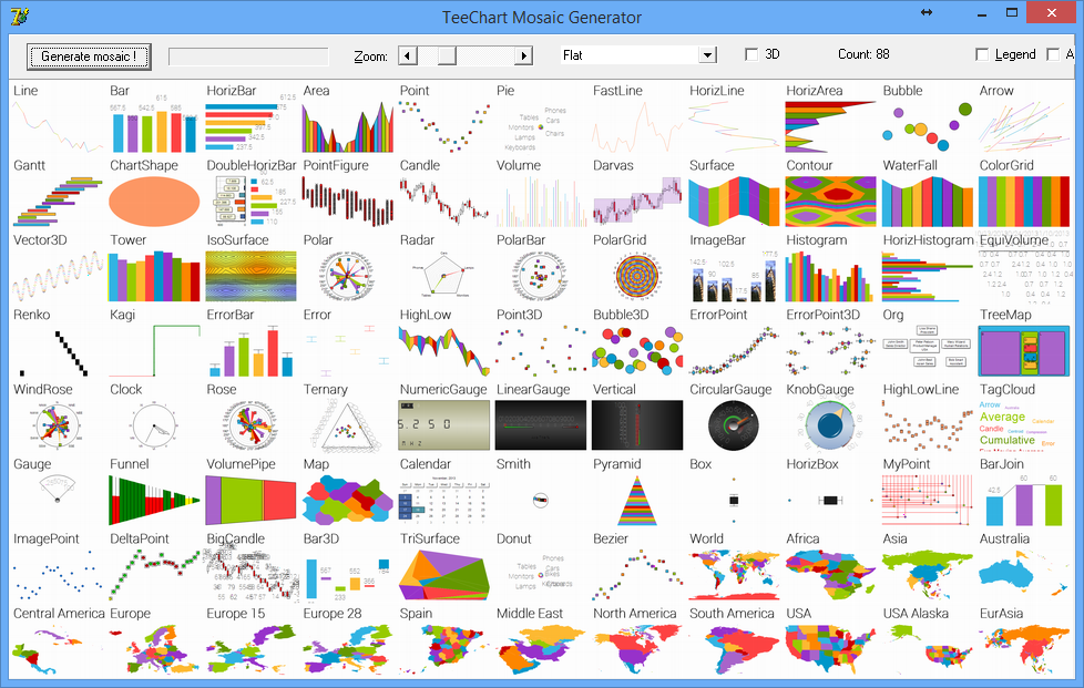 The image shows a gallery of chart styles created with teeChart component. To be included in the article